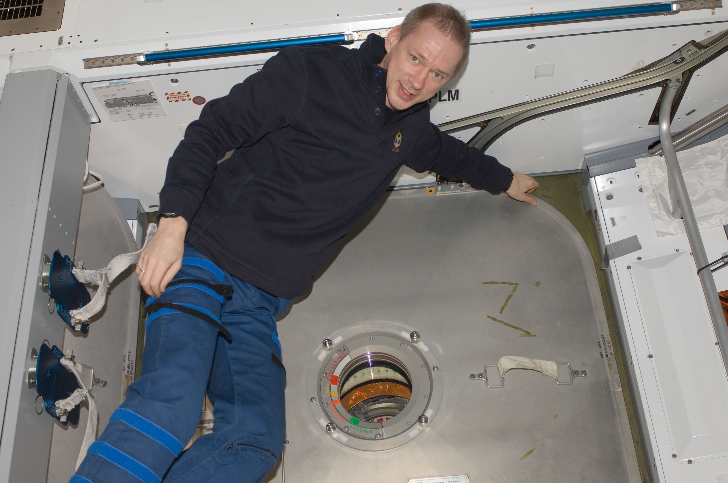 European Space Agency astronaut Frank De Winne, Expedition 21 commander, is pictured at the International Space Station's Harmony node nadir hatch during preparations for the departure of the Japanese H-II Transfer Vehicle (HTV). The HTV was successfully unberthed at 10:18 a.m. (CDT) on Oct. 30, 2009, and released from the station's Canadarm2 at 12:32 p.m.